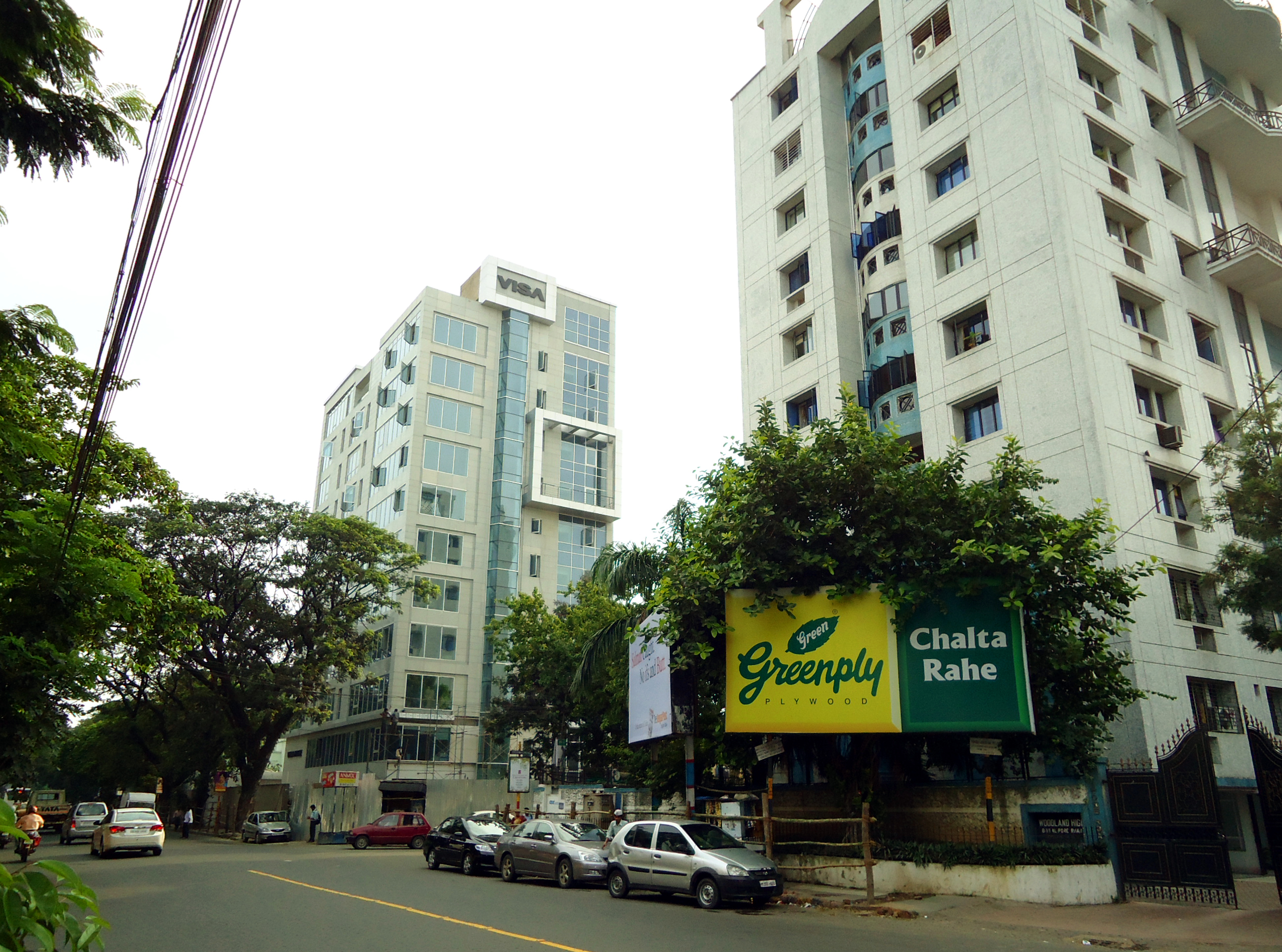 Visa House & Woodland high apts